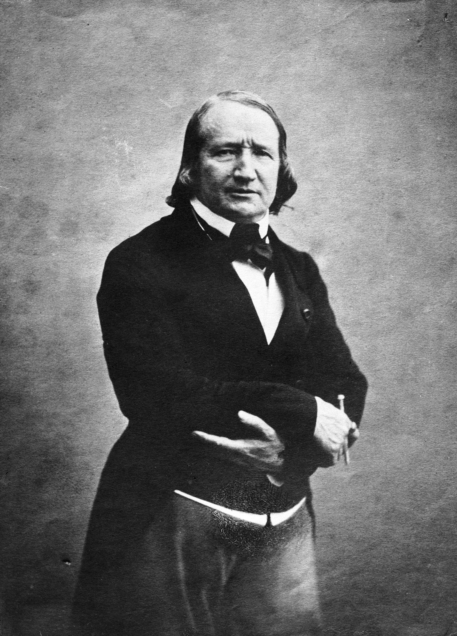 Photography of Alfred de Vigny by Félix Nadar